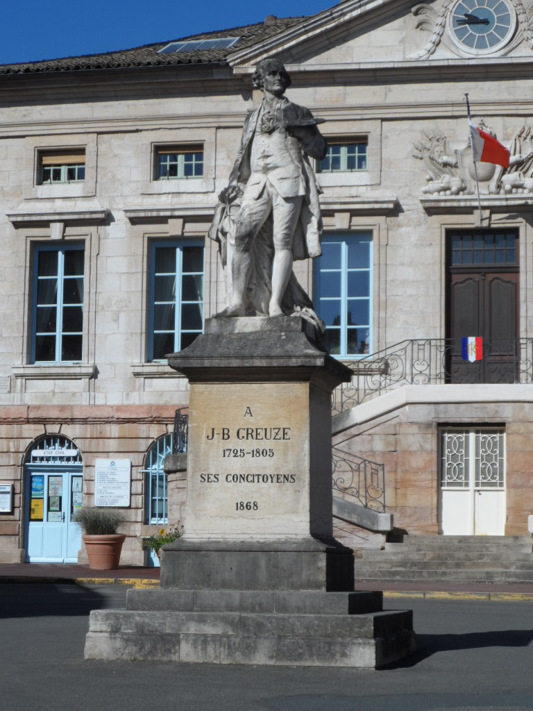 Statue of French painter Jean-Baptiste Greuze (1725-1805) in Tournus, France